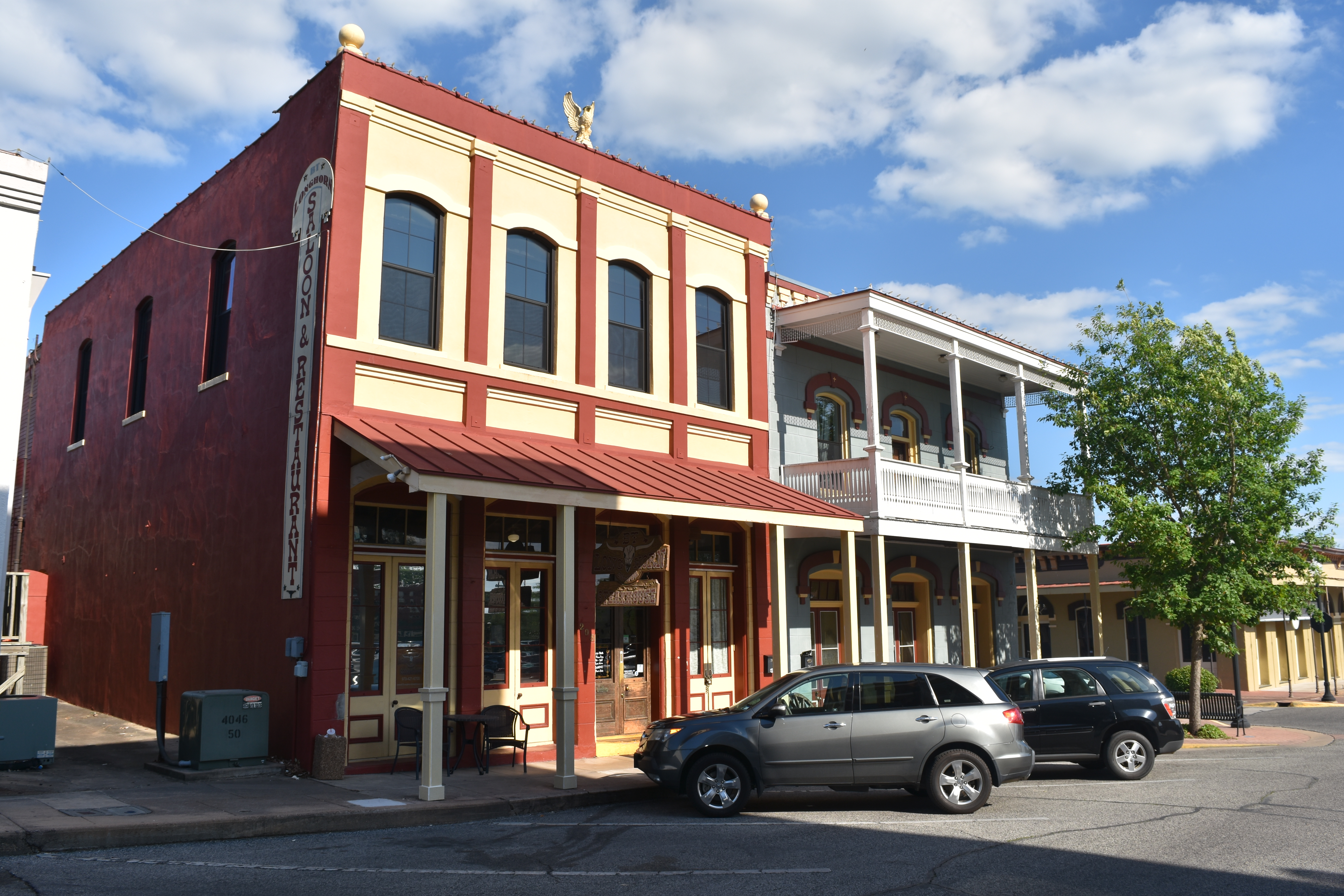 Houses in Downtown Historic District Brenham, Texas, USA